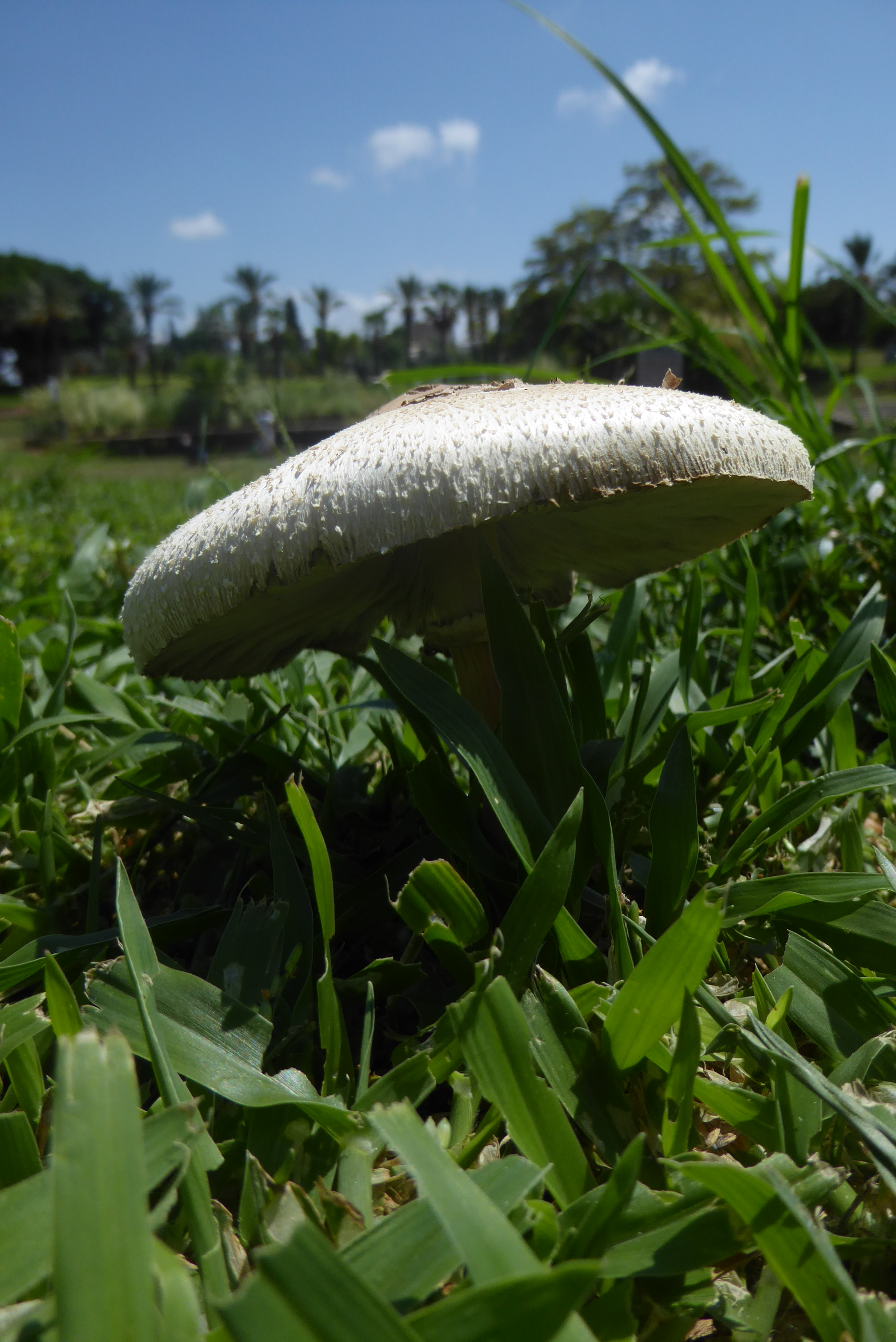 Edith Wolfson Park